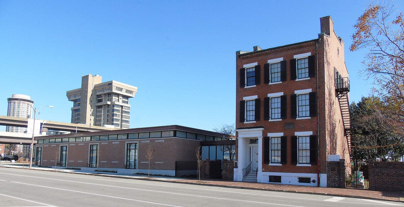 Field House Museum with the new expansion